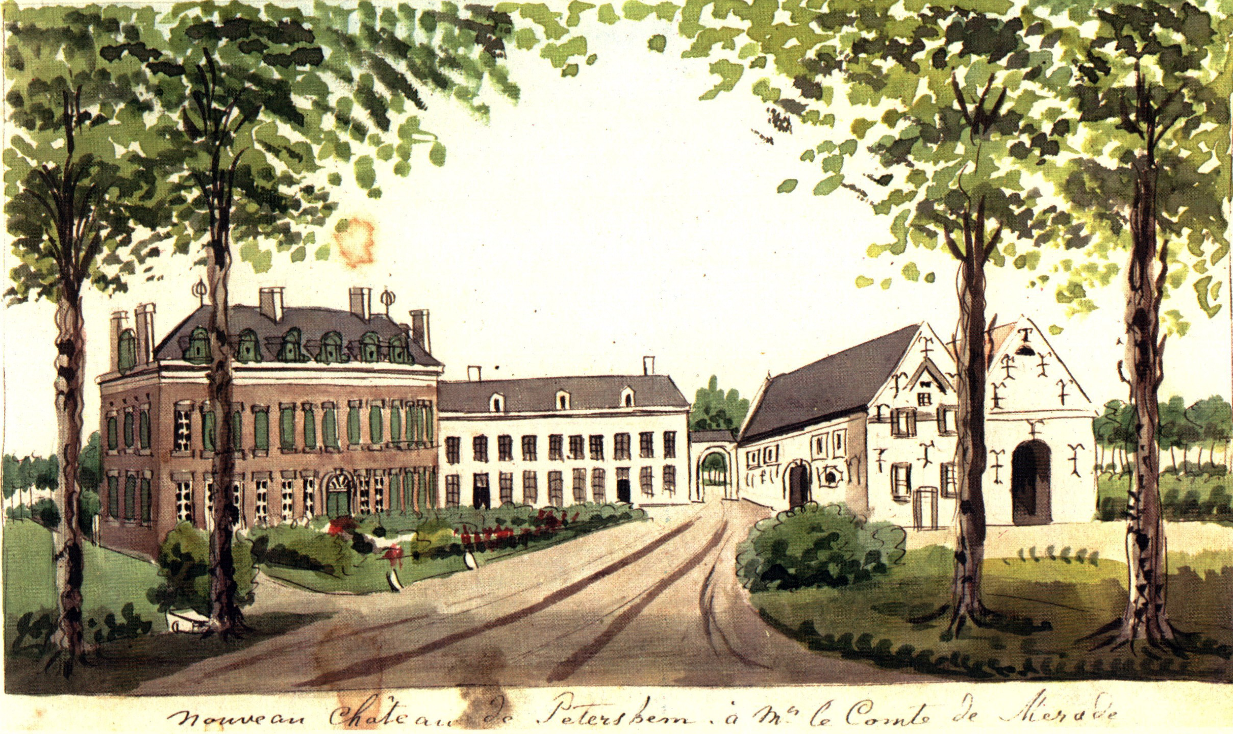 View of Pietersheim Castle in Lanaken, Limburg, Belgium (near Maastricht, the Netherlands). Drawing by Philippus van Gulpen (c 1840-60)